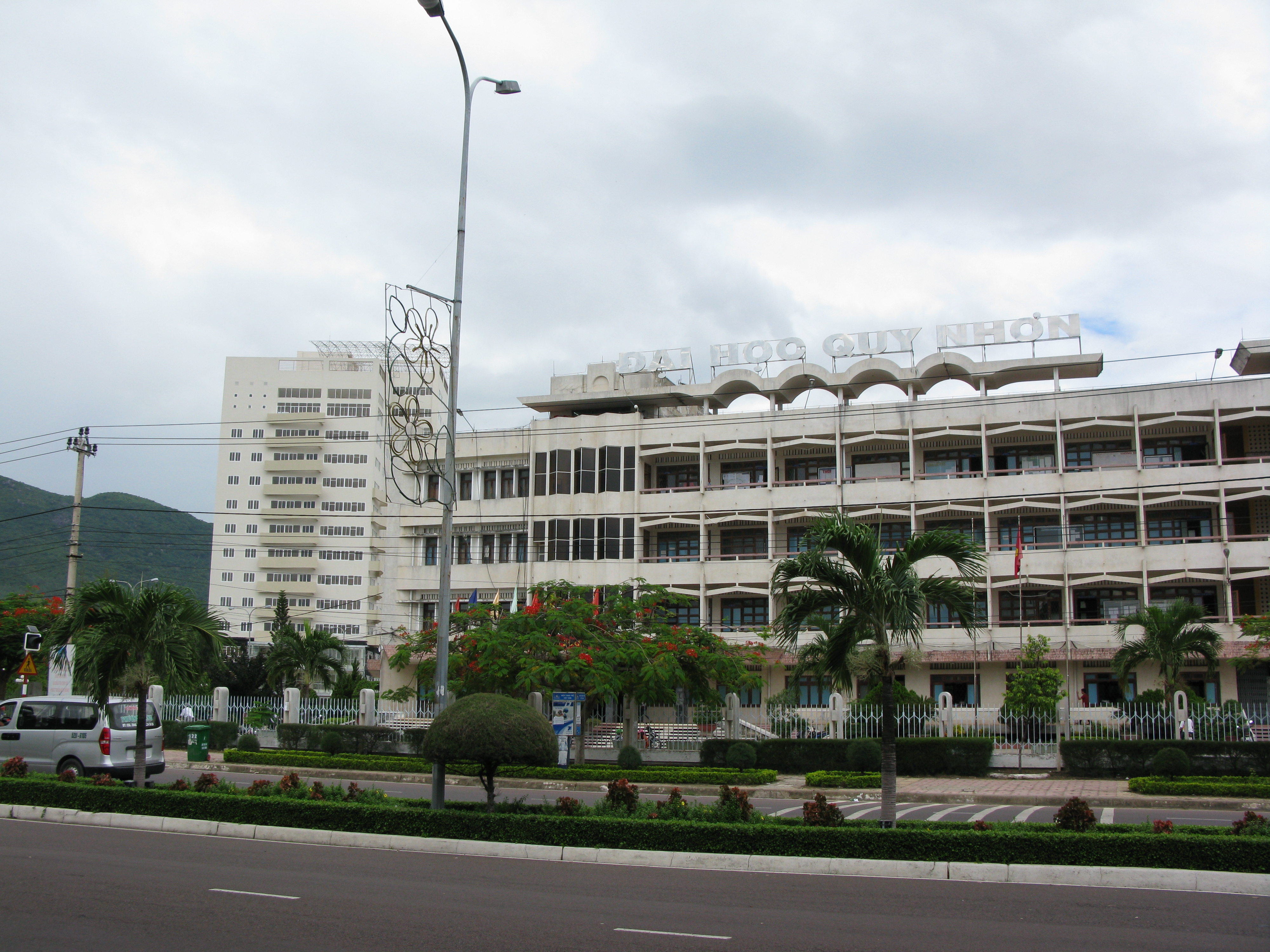 Quy Nhon University, Quy Nhon, Binh Dinh, Viet Nam